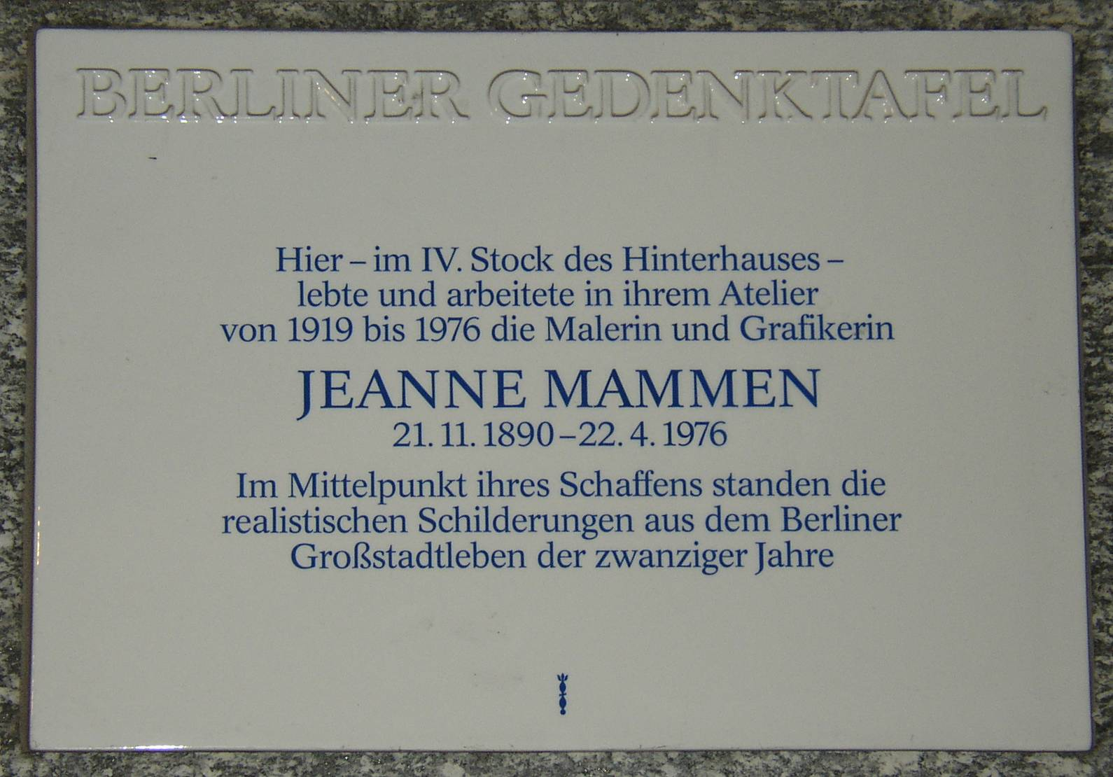 Berlin memorial plaque for Jeanne Mammen in Berlin-Charlottenburg, Germany